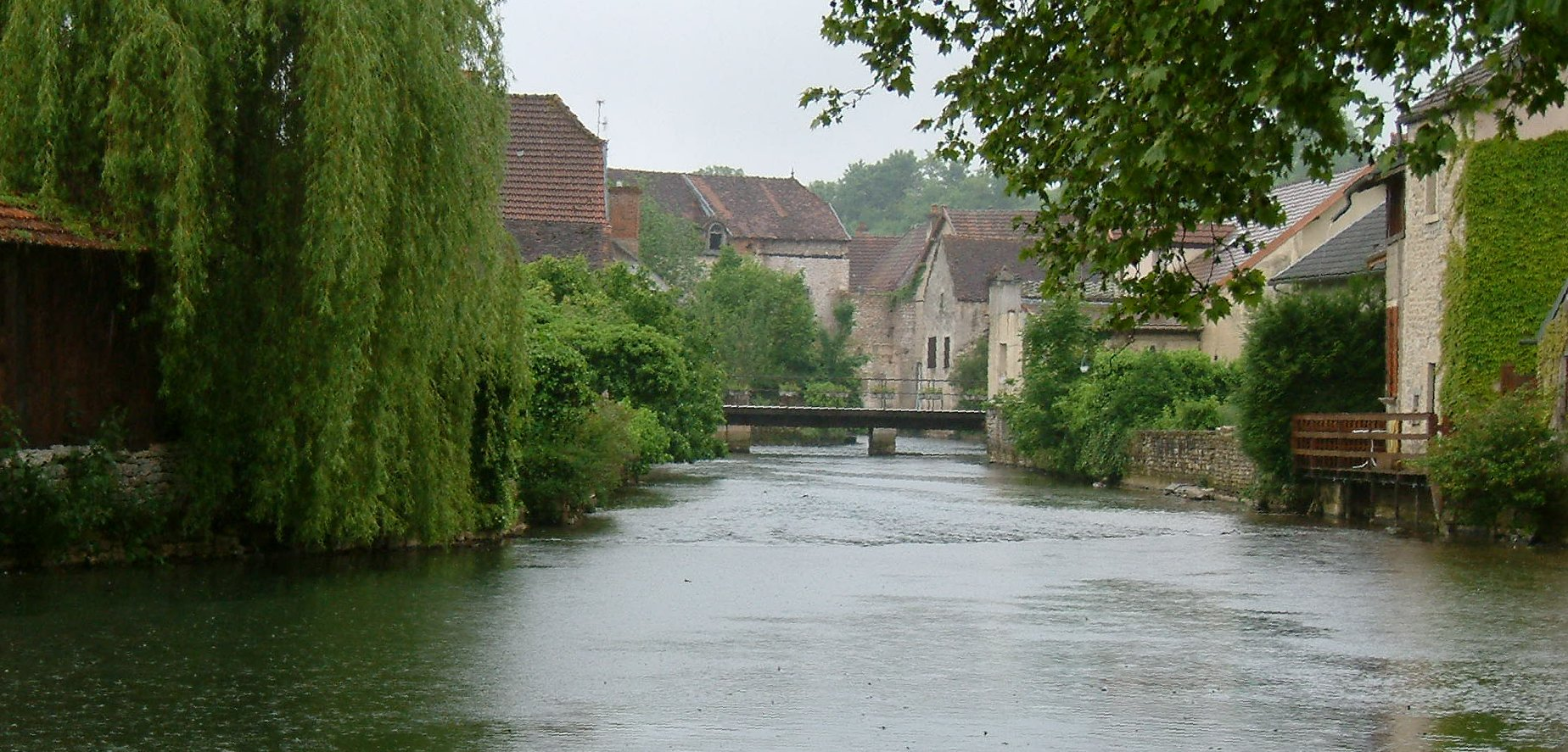 Bèze, Burgundy, FRANCE.